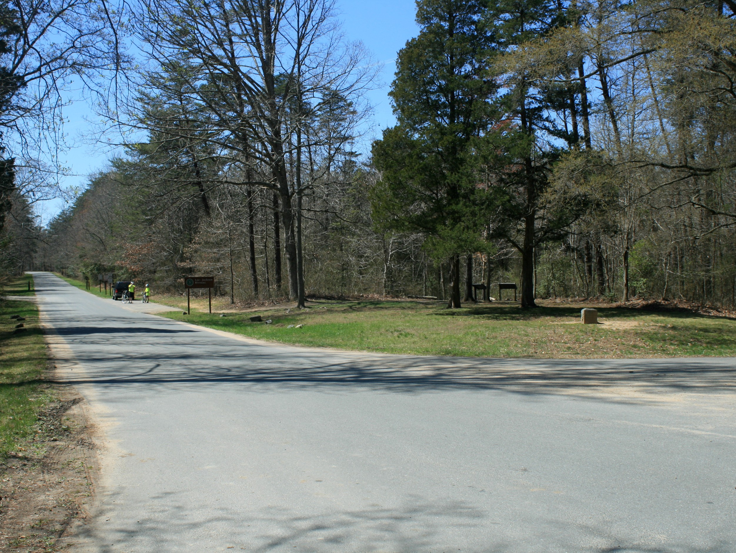 Chancellorsville battlefield, Orange Plank Road and Lee's camping